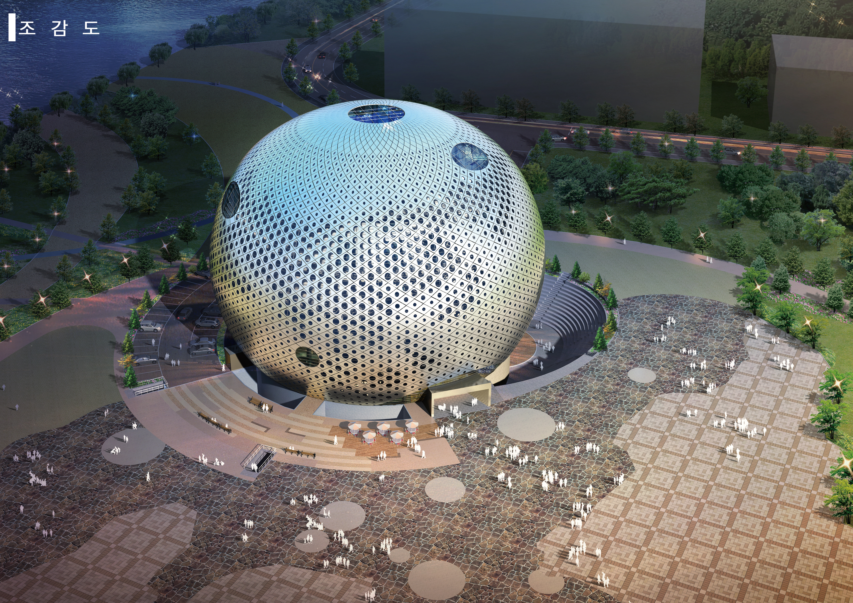 UN기념관